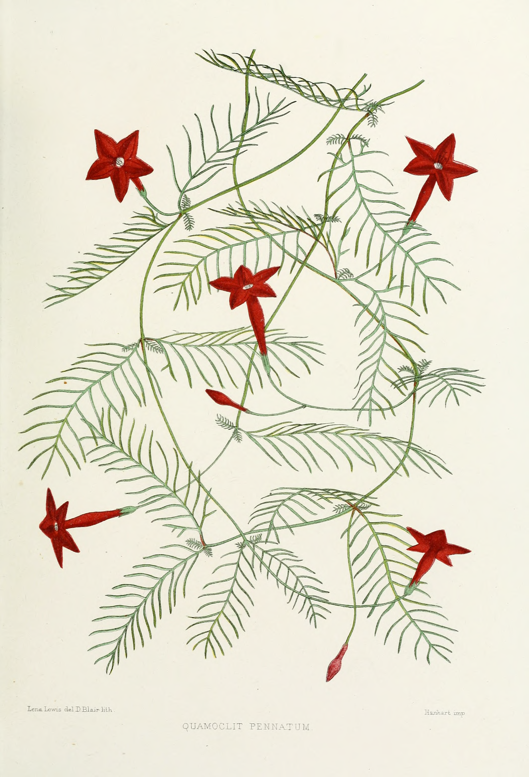 Colour drawing of quamoclit from Familiar Indian Flowers (1878) by Lena Lowis.